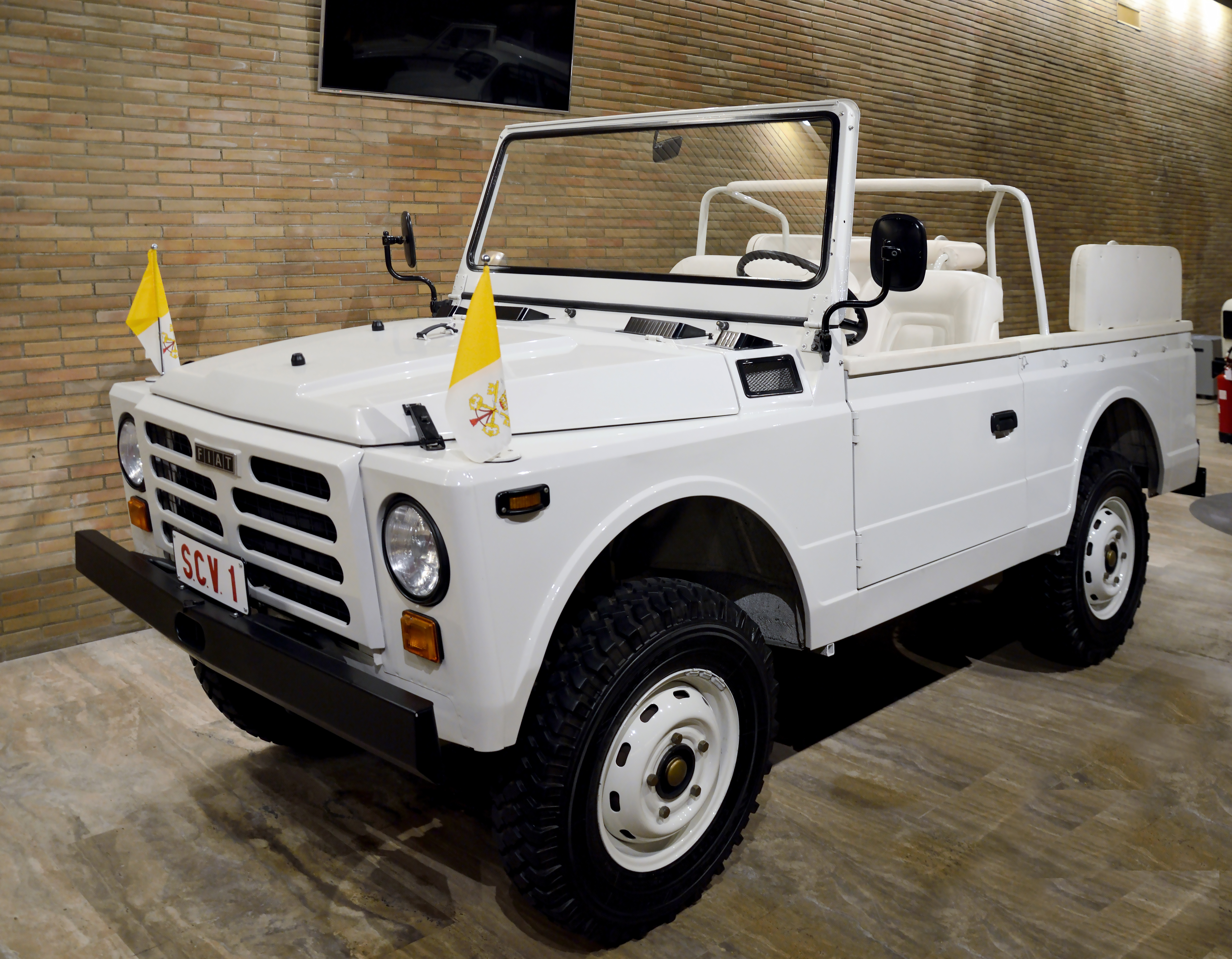 Fiat "Campagnola" attempted murder of Pope John Paul II